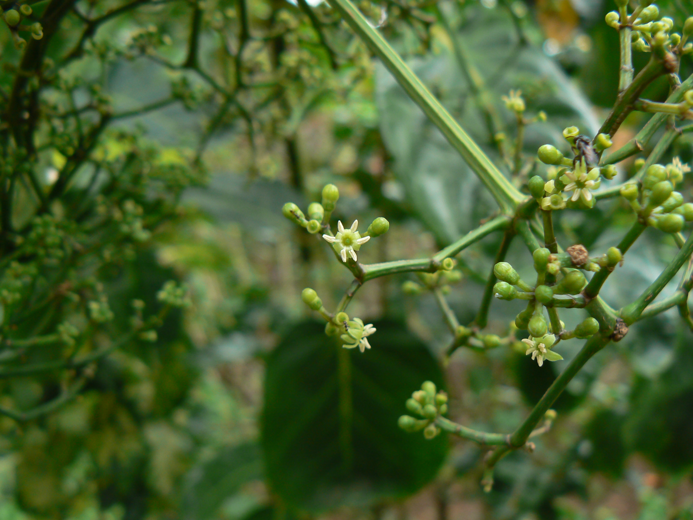 Araliaceae (aralia or ivy family) » Polyscias scutellaria pol-ISS-skee-as -- from the Greek poly (many) and scias (canopy, or umbel) skew-teh-LARE-uh -- meaning, saucer- or shield-shaped commonly known as: balfour aralia, fabian aralia, plum aralia, shield aralia Origin: Africa to the Pacific Islands